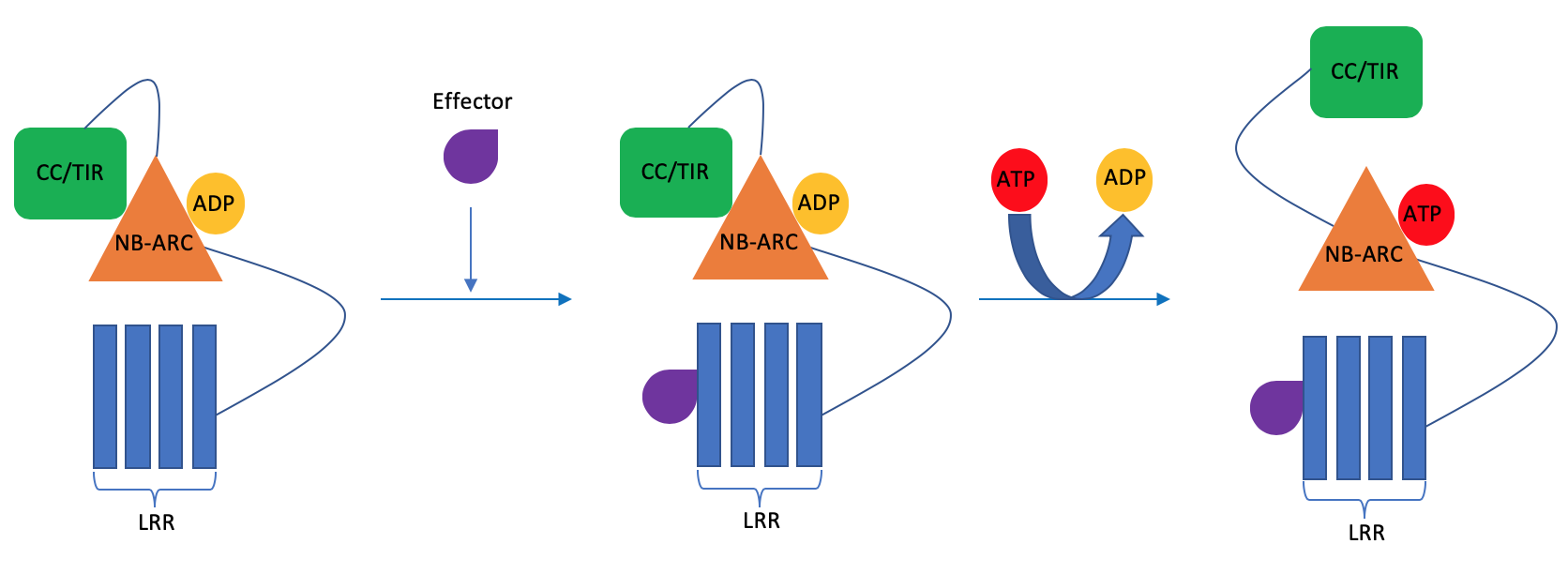 This diagram represents what happens after a virulence factor of a pathogen is sensed by an NLR protein.